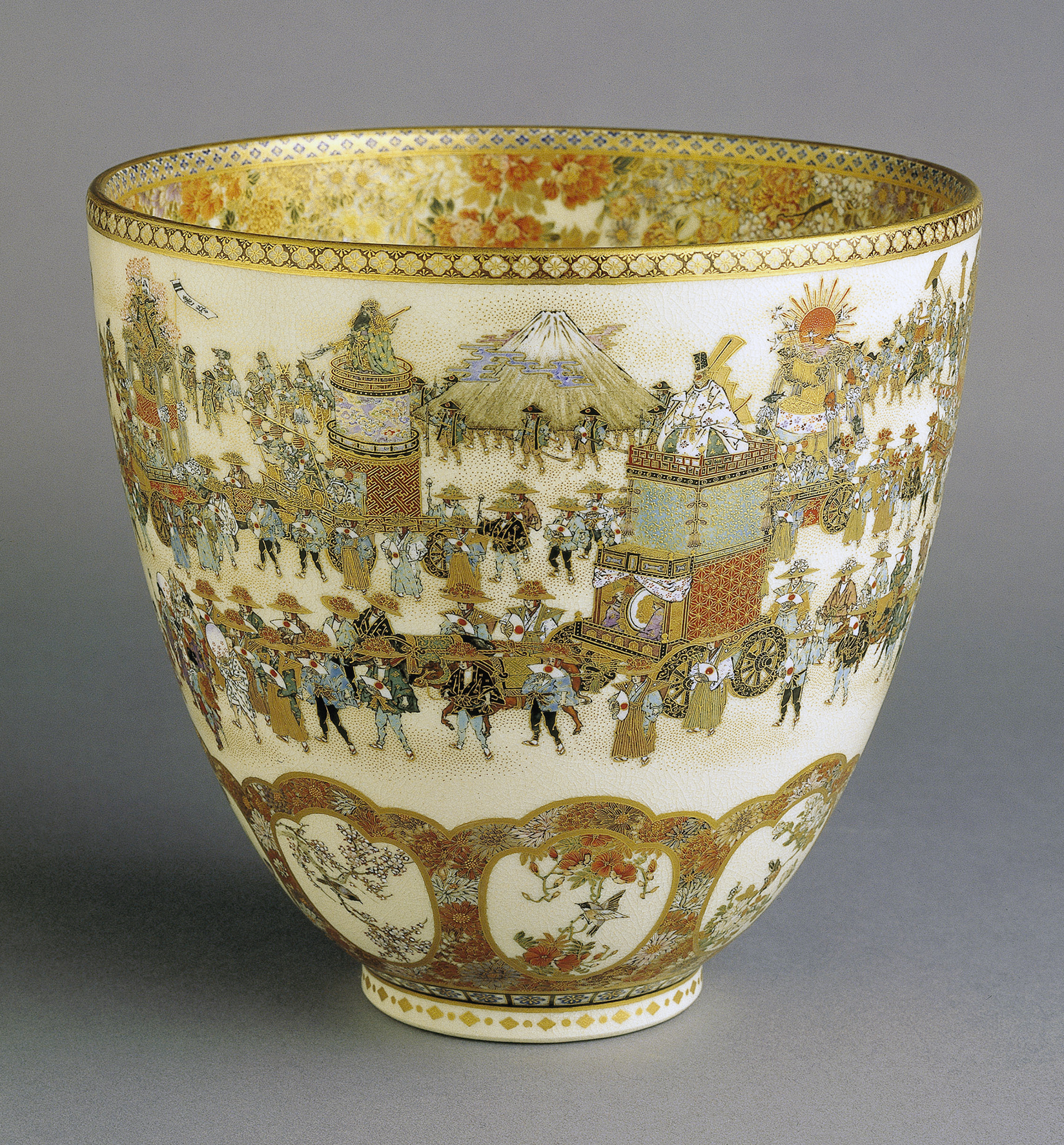 Bowl from the Khalili Collection of Japanese Meiji Art, Japan circa 1910. Depicting a procession. Made in the workshop of Yabu Meizan and sealed Yabu Meizan. Described at and J. Earle, Splendors of Imperial Japan: Arts of the Meiji period from the Khalili Collection, London 2002, cat. 103, pp. 160–1.